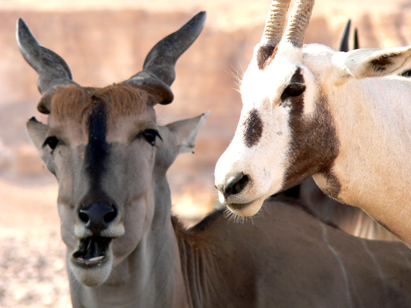 Antelopes Farm, Arava, Israel; photo by: Eynat Dahan Israel